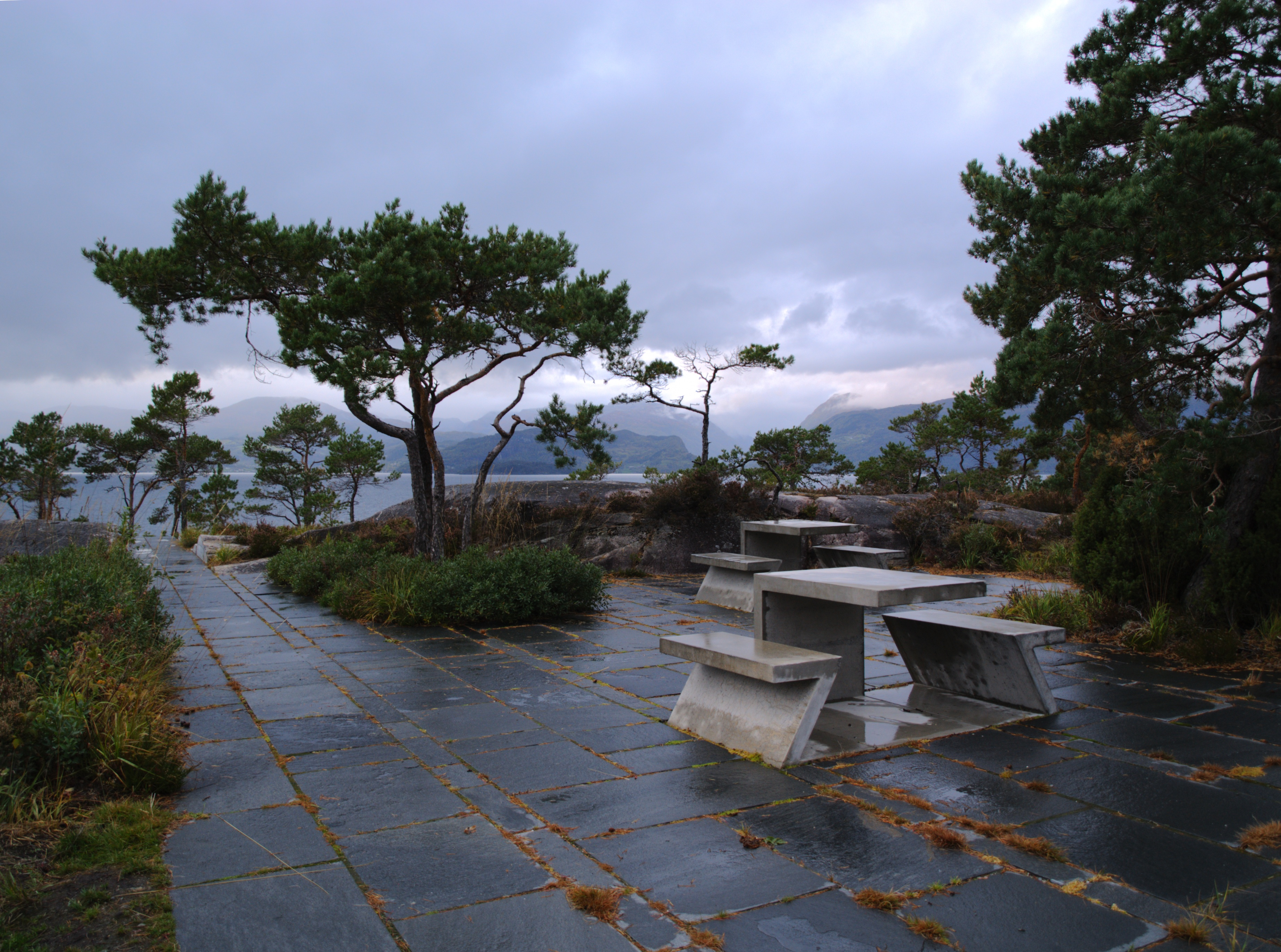 Restplace and viewpoint near Herand in Jondal, Hardanger